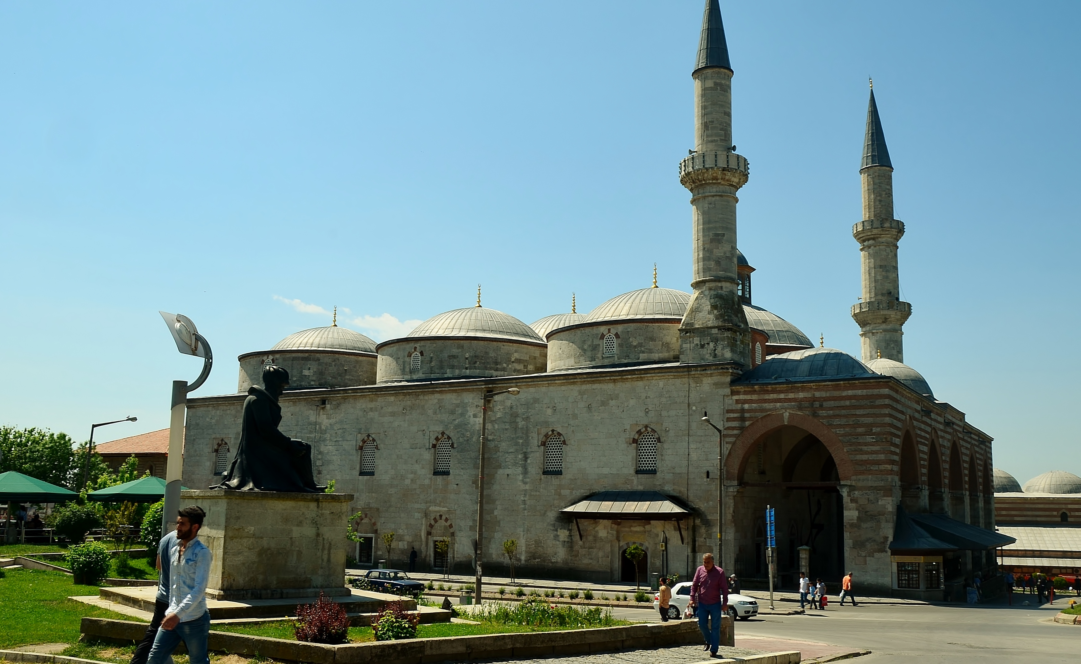 Eski Cami (Old Mosque) in Edirne, Turkey